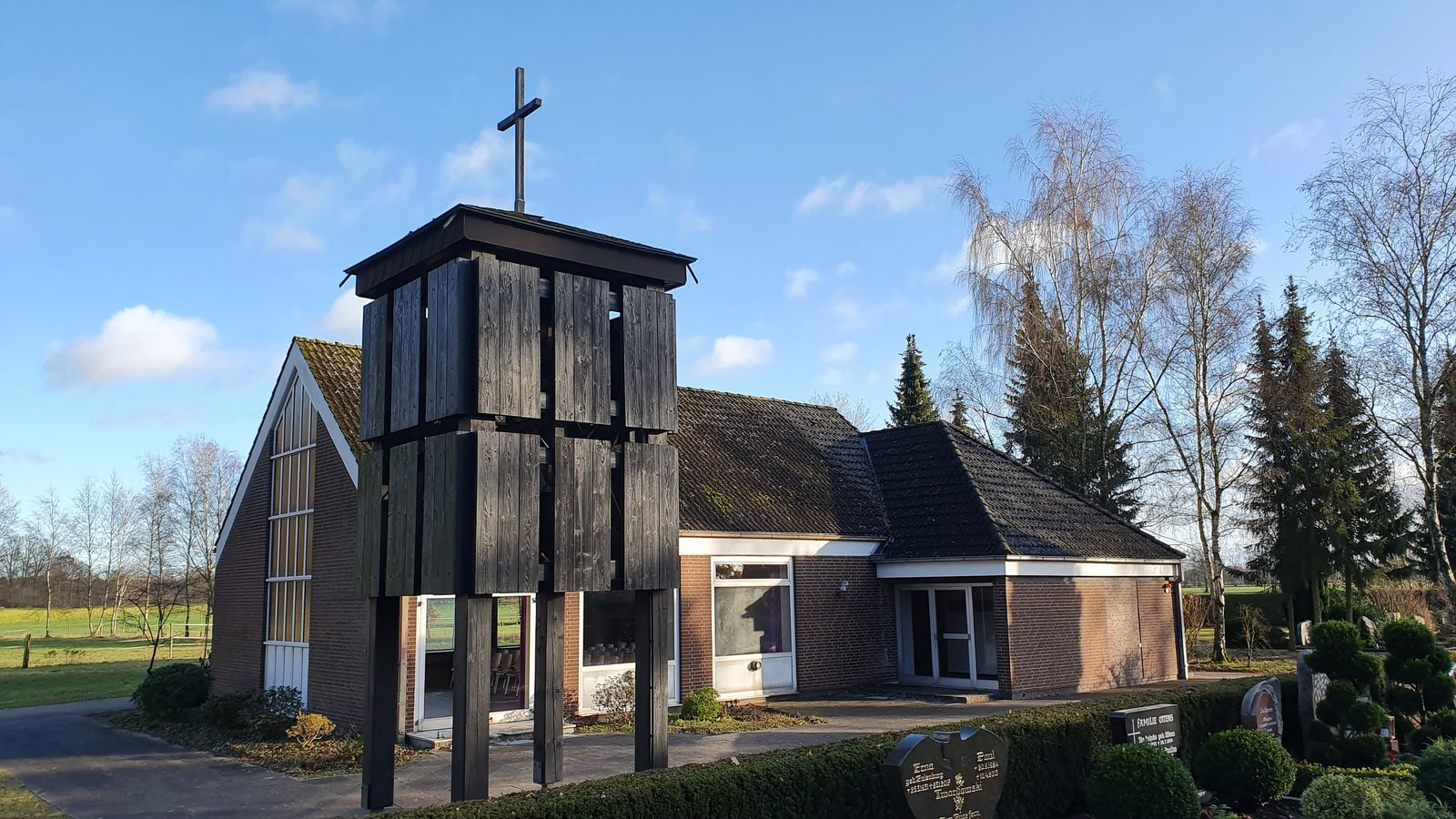 Chapel in Königsmoor cemetery